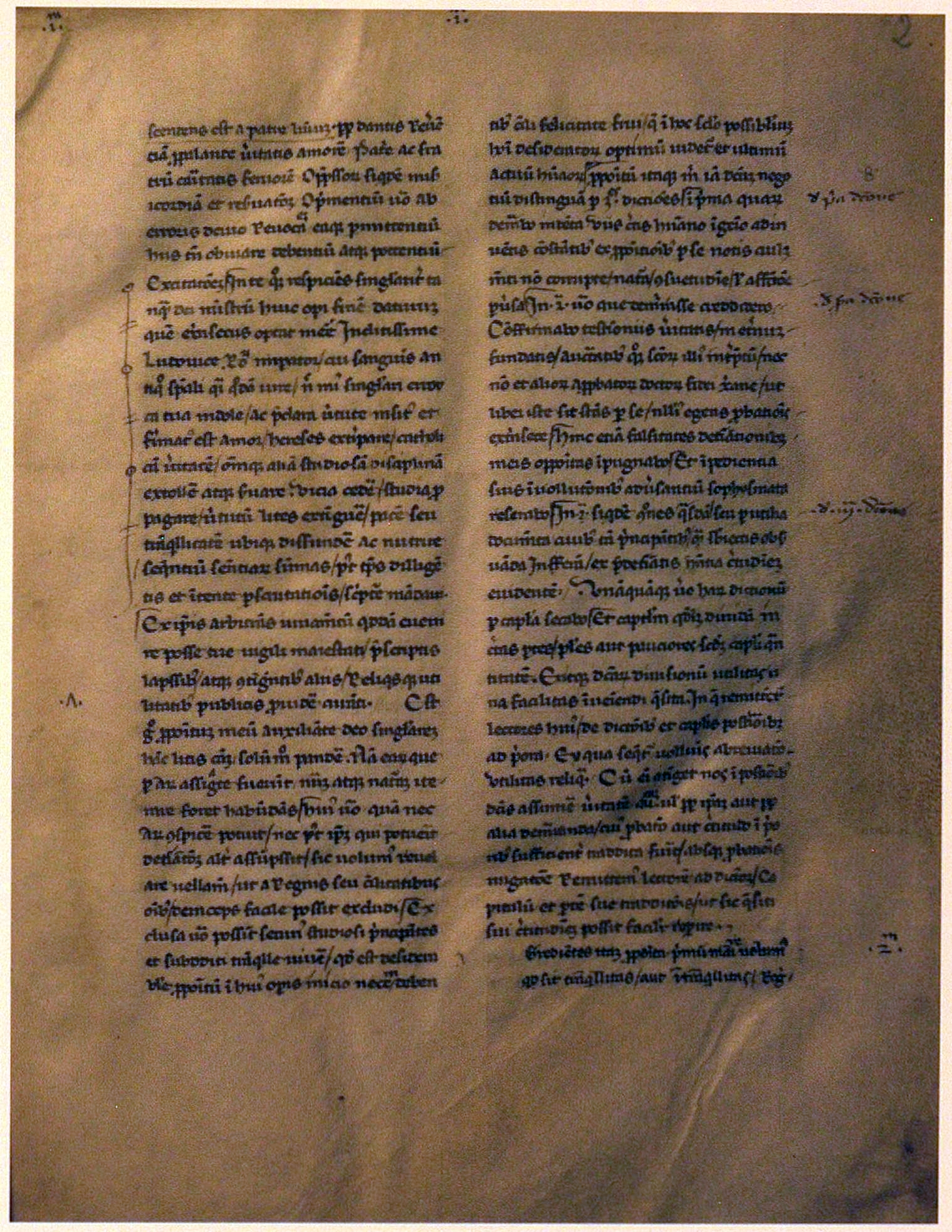 A page of the Defensor pacis in the manuscript Tortosa, Arxiu Capitular de la Catedral, Ms. 141, fol. 2r.